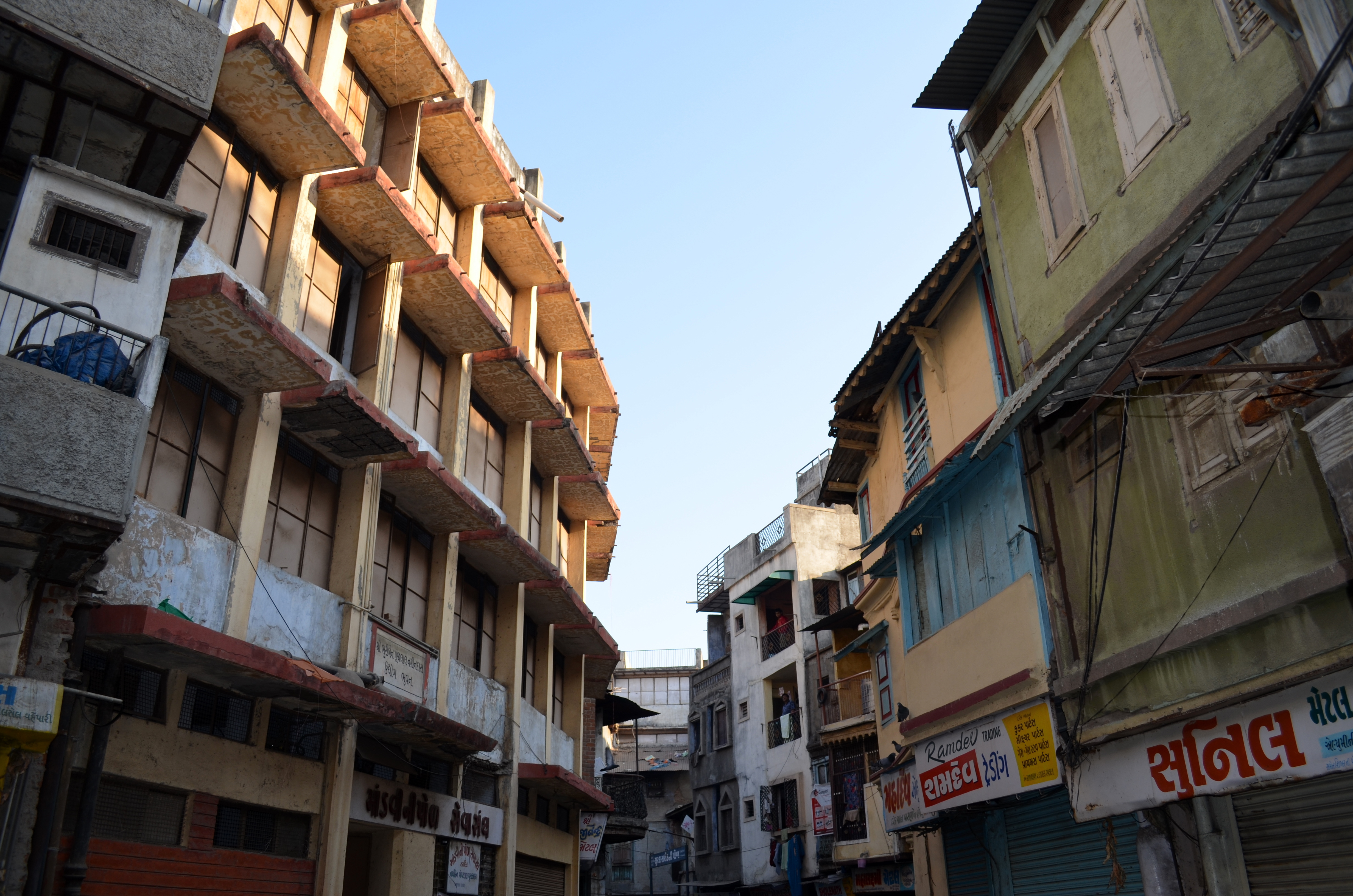 Pole Area of Ahmedabad